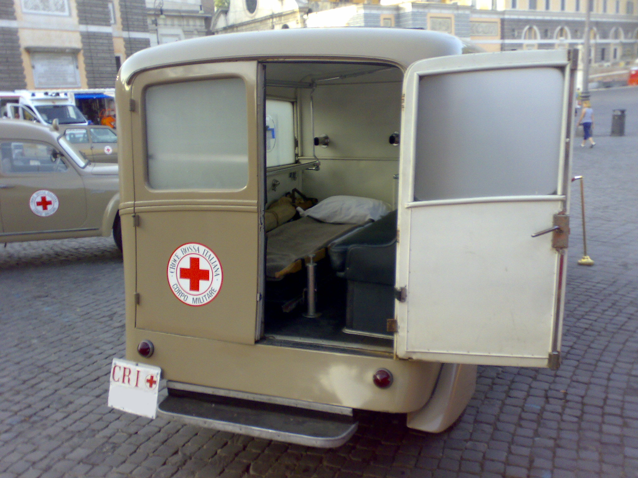 Bianchi S9 (1938) Ambulance (CROCE ROSSA ITALIANA, CORPO MILITARE) by "Carrozzeria Garavini"